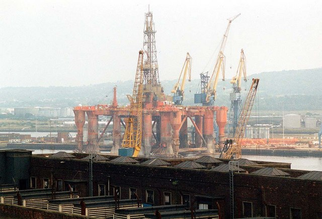 Borgny Dolphin Cleaning, repair and upgrading work being carried out on the Borgny Dolphin at the Ship Repair Yard